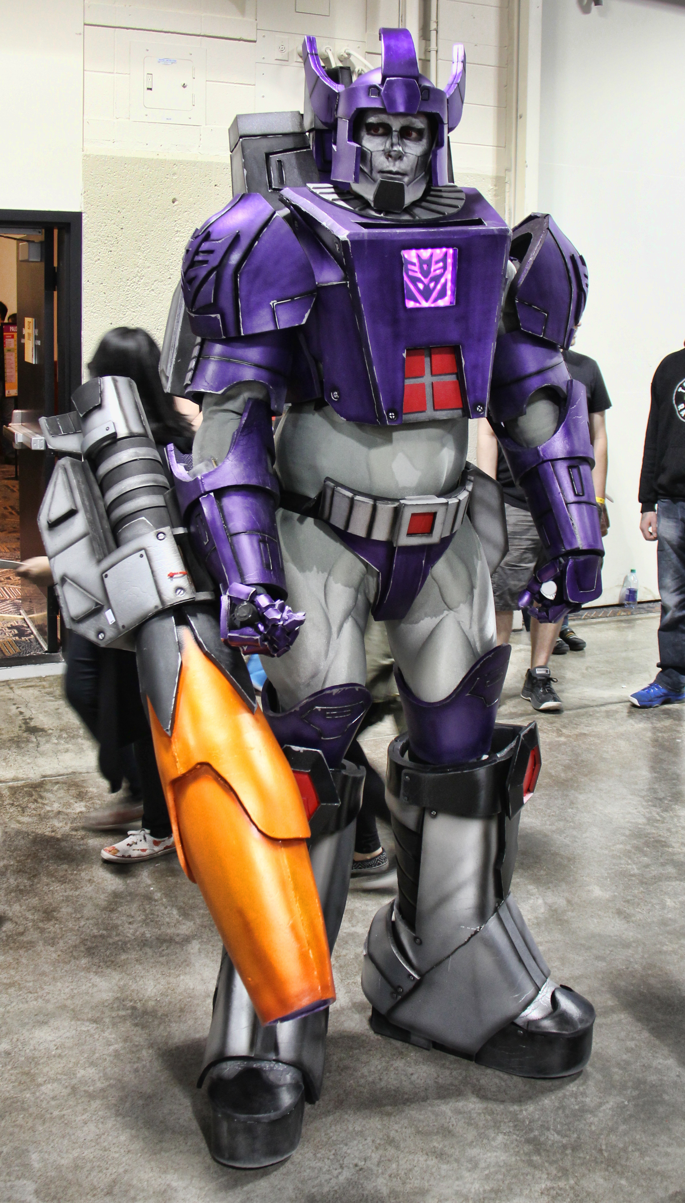 Cosplay of Galvatron (from the 1986 Transformers movie) at Calgary Comic & Entertainment Expo 2016.